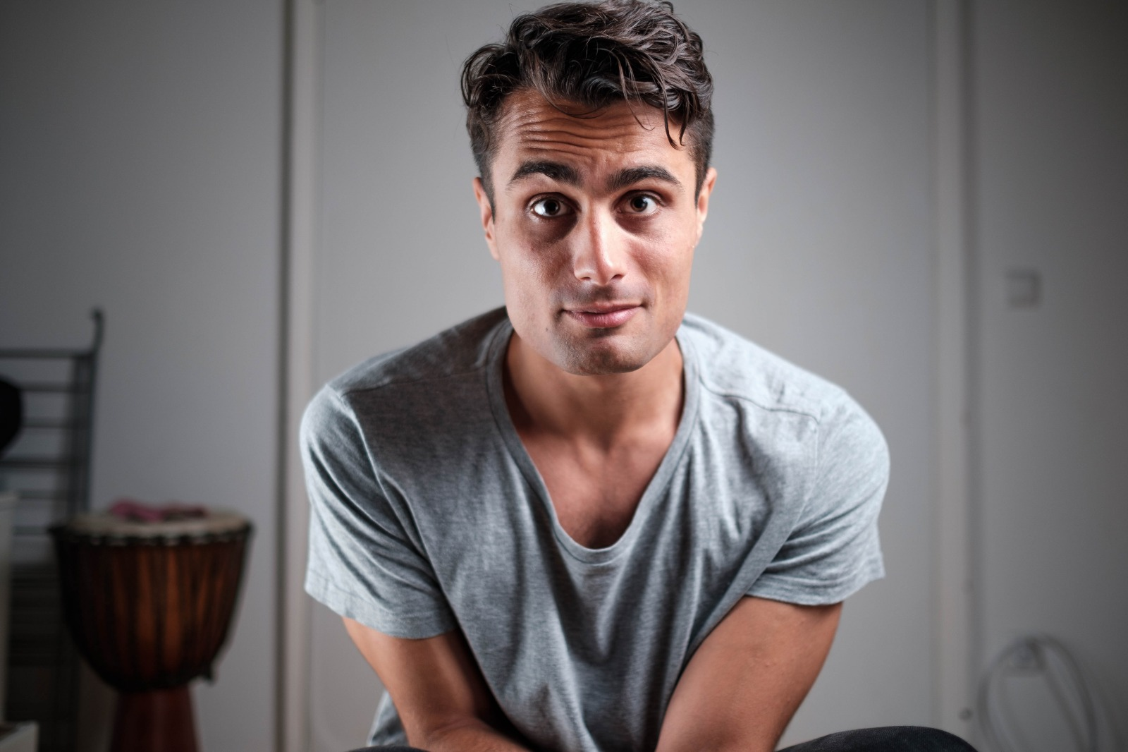 Political scientist and activist Ben Dagan in Vienna in September 2019.